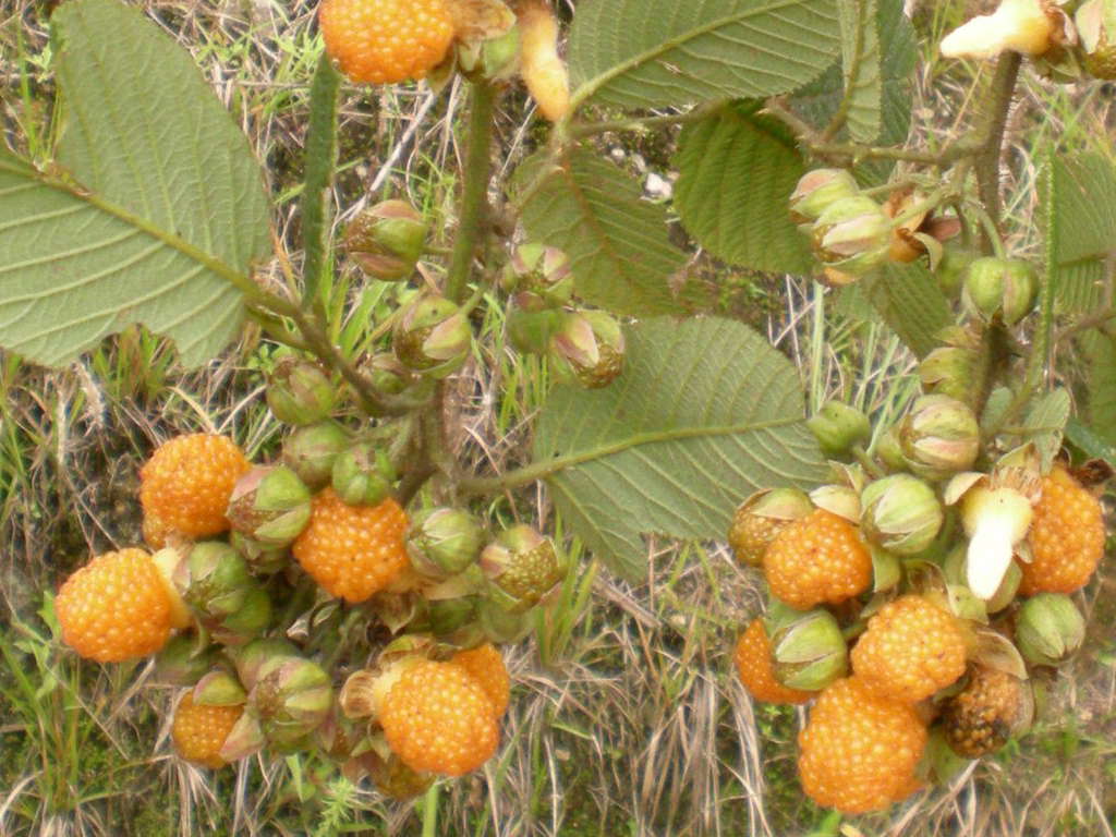 Nepali Golden berry.